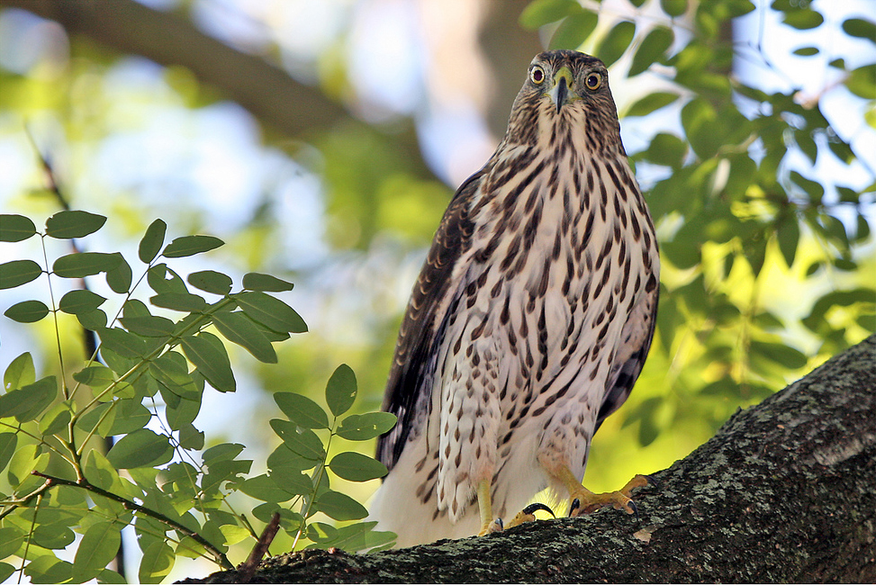 A juvenile Cooper's Hawk found in Washington, DC, USA.